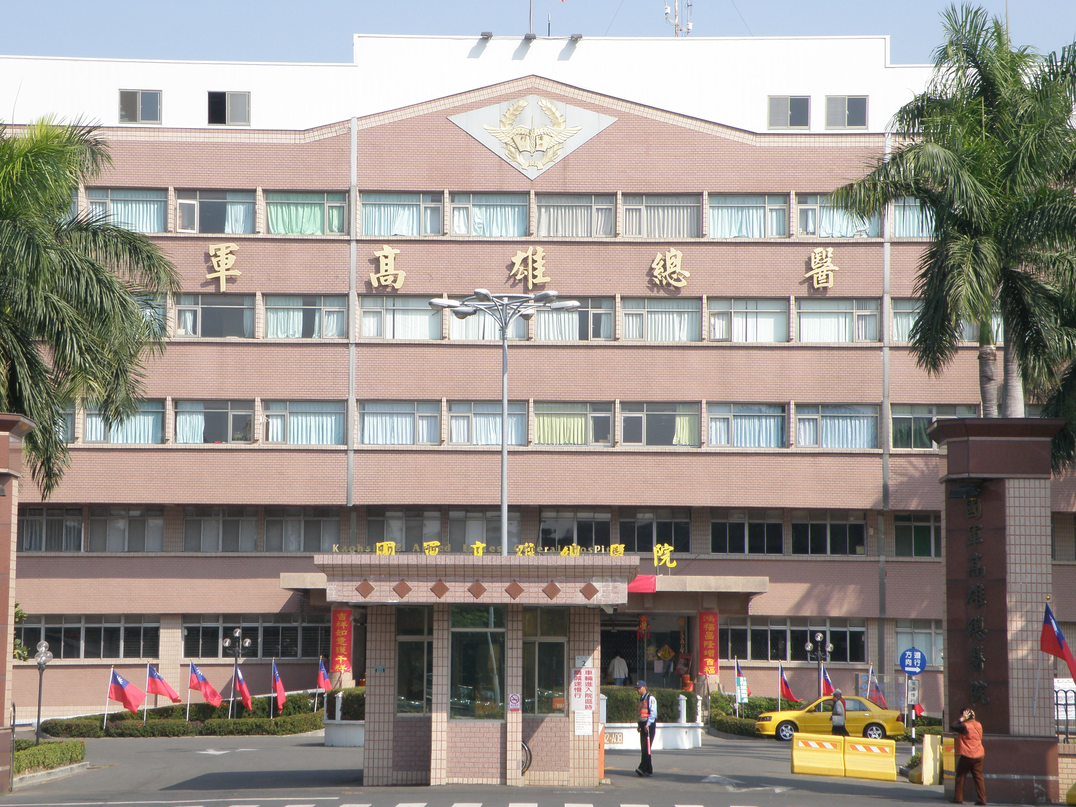 Kaohsiung Armed Forces General Hospital which near KMRT Weiwuying Station.